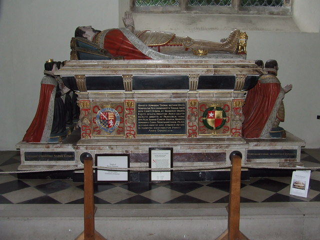 Parish church of St Michael the Archangel, Framlingham, Suffolk: tomb of Henry Howard The tomb of Henry Howard, Earl of Surrey and Frances, (née de Vere) Countess of Surrey